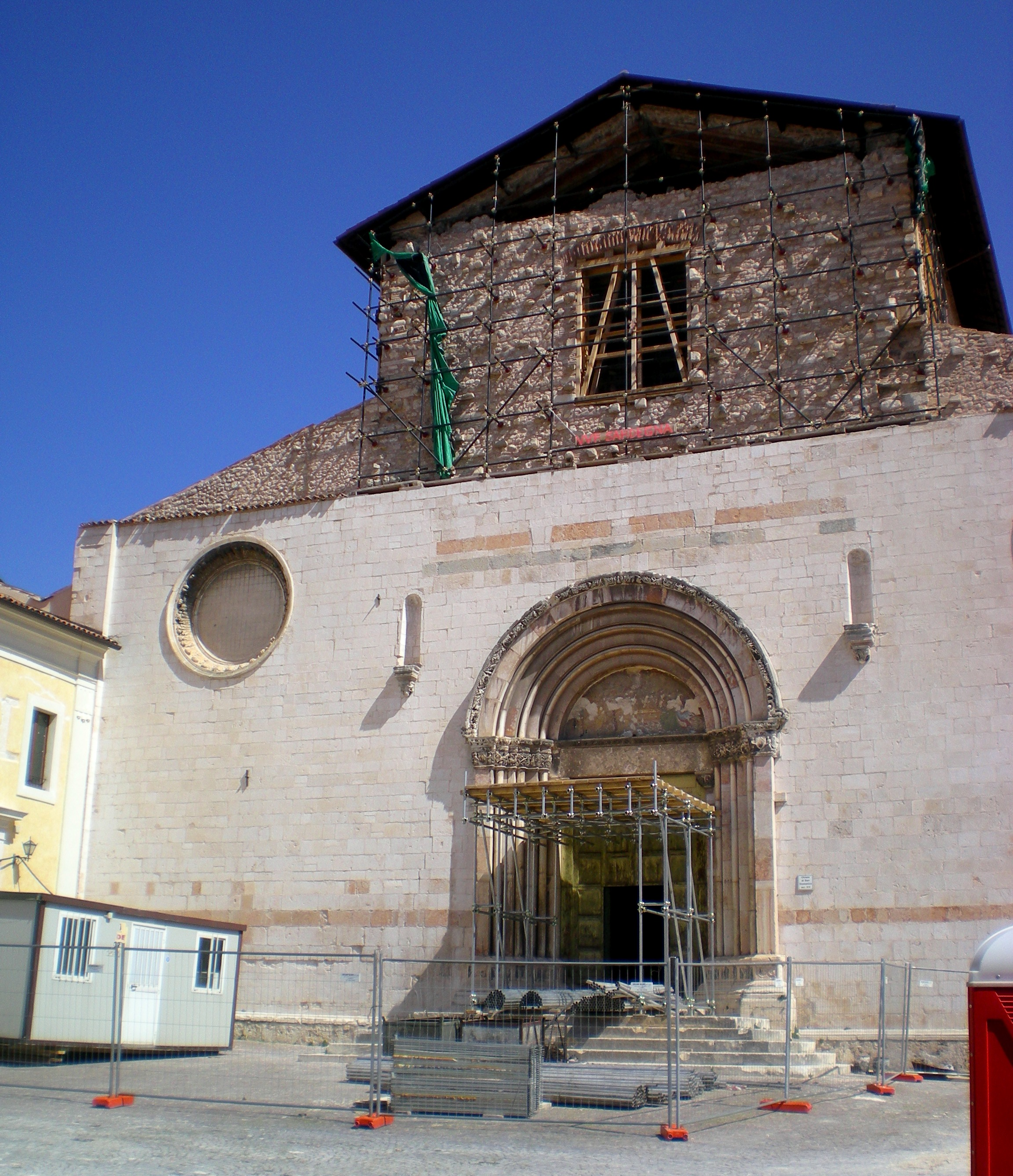 Church of San Domenico in L'Aquila, after the 2009 earthquake